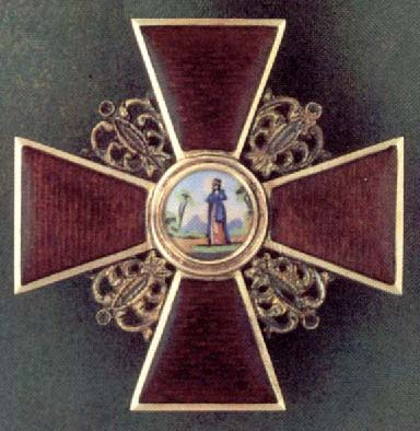 Order of St. Anna, 3rd degree